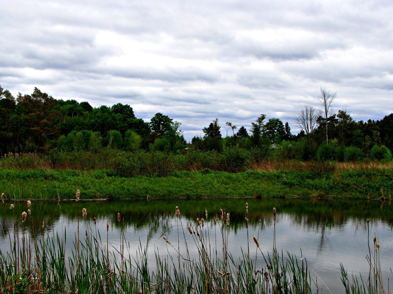 Cloudy Pond